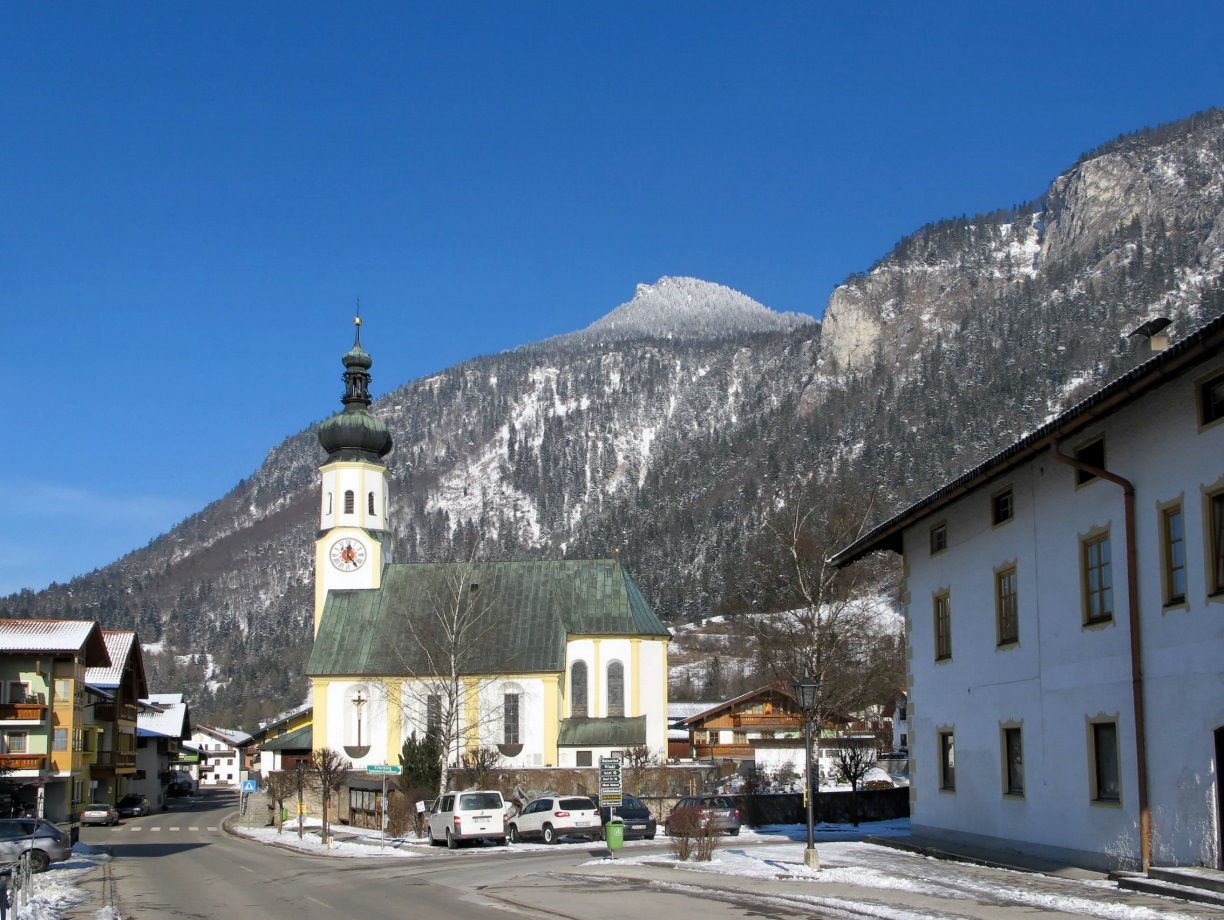 Village "Erl" in Tyrol, Center with Church "St. Andreas"